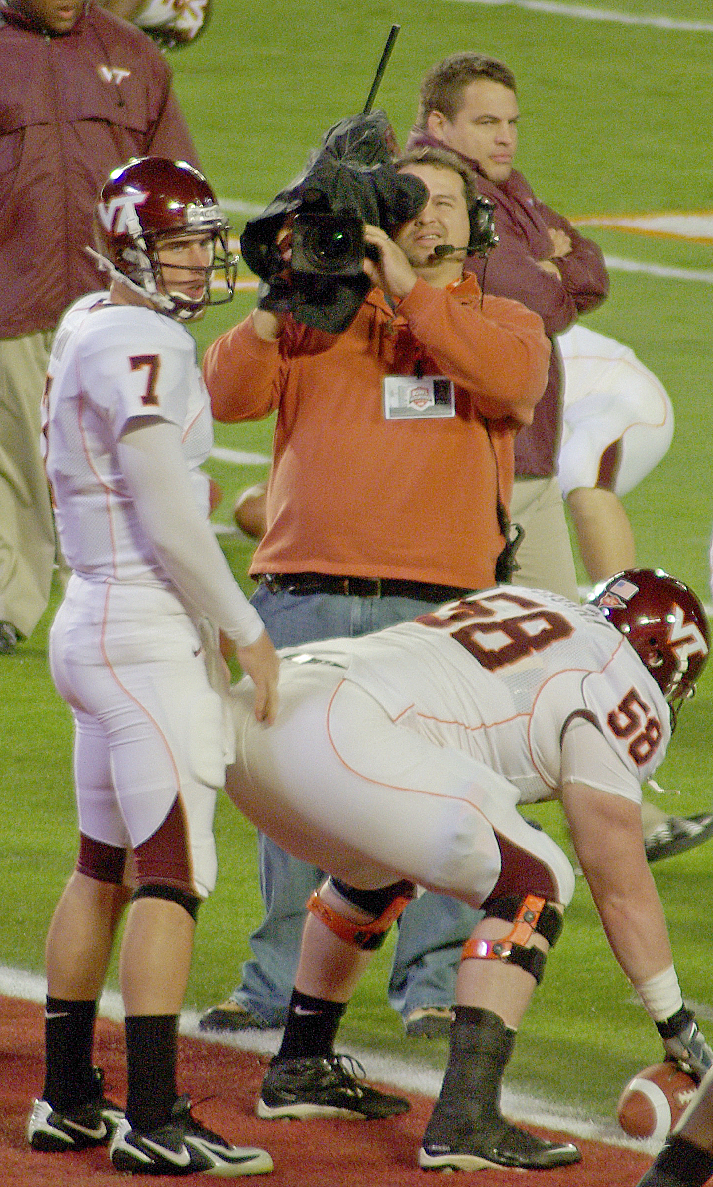 Due to its nature as a Bowl Championship Series event, the 2008 Orange Bowl was highly covered by national and international members of the media.